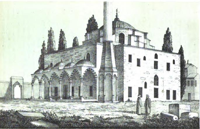 Byzantinai meletai topographikai (1877) Author: Paspatēs, Alexandros Geōrgiou, 1814-1891. [from old catalog] Subject: Inscriptions, Greek Year: 1877 Possible copyright status: NOT_IN_COPYRIGHT Language: English Digitizing sponsor: Google Book contributor: Oxford University Collection: europeanlibraries